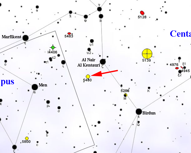 Map of NGC 5460